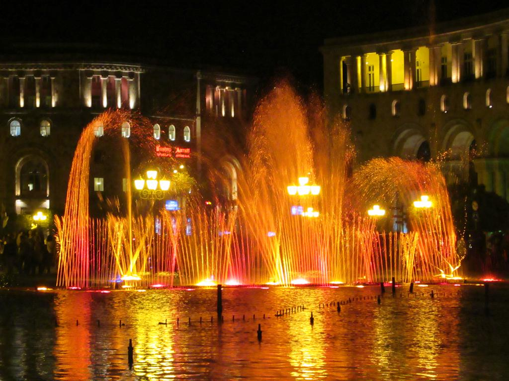 The Singing Fountains on Republic Square in Yerevan, Armenia, provide a wonderful two-hour light and sound show almost every evening.